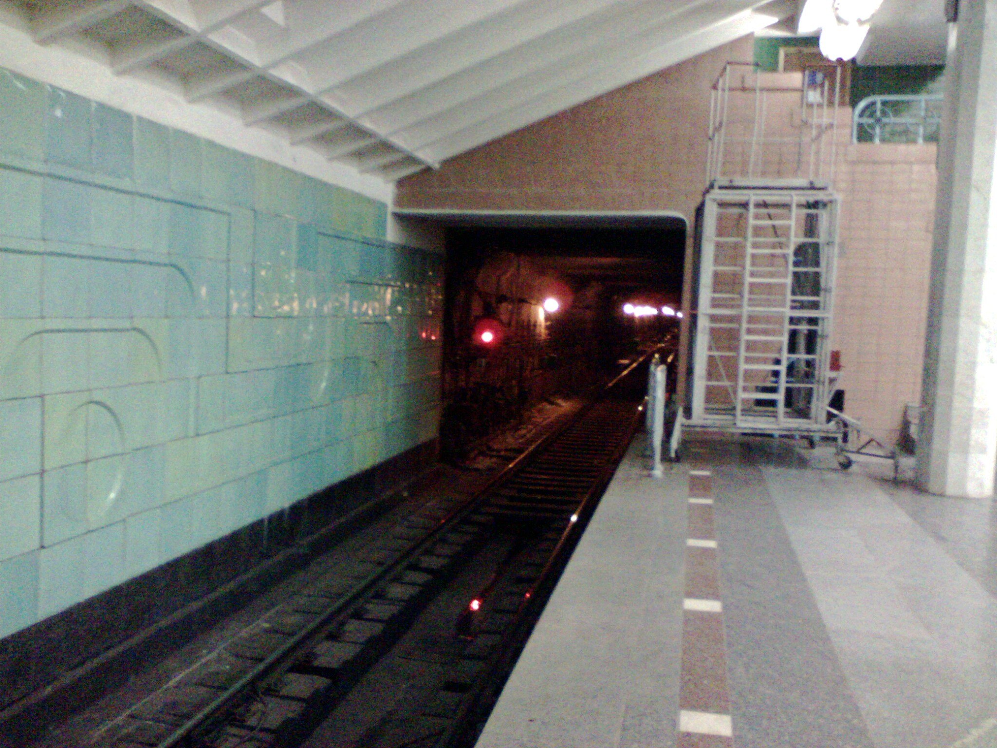 Tunnel portal on the Metrobudivnykiv Imeni Vashchenko metro station, Kharkiv.